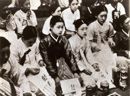 Korean children holding "comfort bagss" which were used to accommodate cans and commodity goods in front of them and sent overseas to the soldiers.